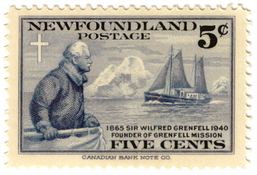 A Newfoundland Postage stamp from 1941 showing Wilfred Grenfell (1865-1940), a medical missionary to Newfoundland and Labrador.